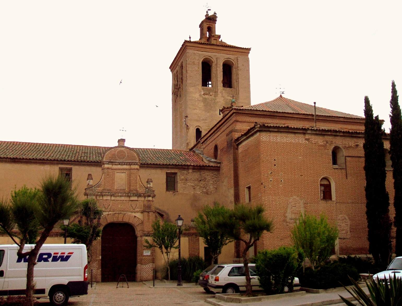 Iglesia de El Salvador, Arévalo, provincia de Ávila, Castilla y León, España.